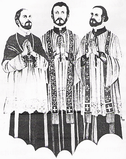 The three Saint martyr's of Košice